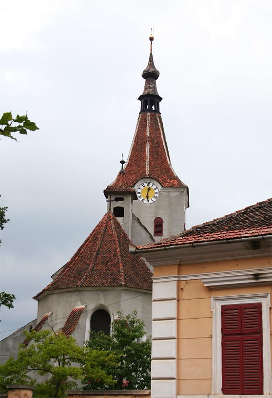 Saxon church in Rasnov.